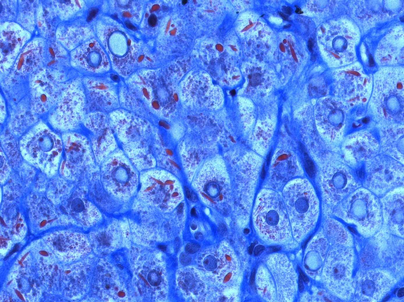 Mega-mitochondria of hepatocytes under light microscope (using chromotrope anillin blue stain, CAB)